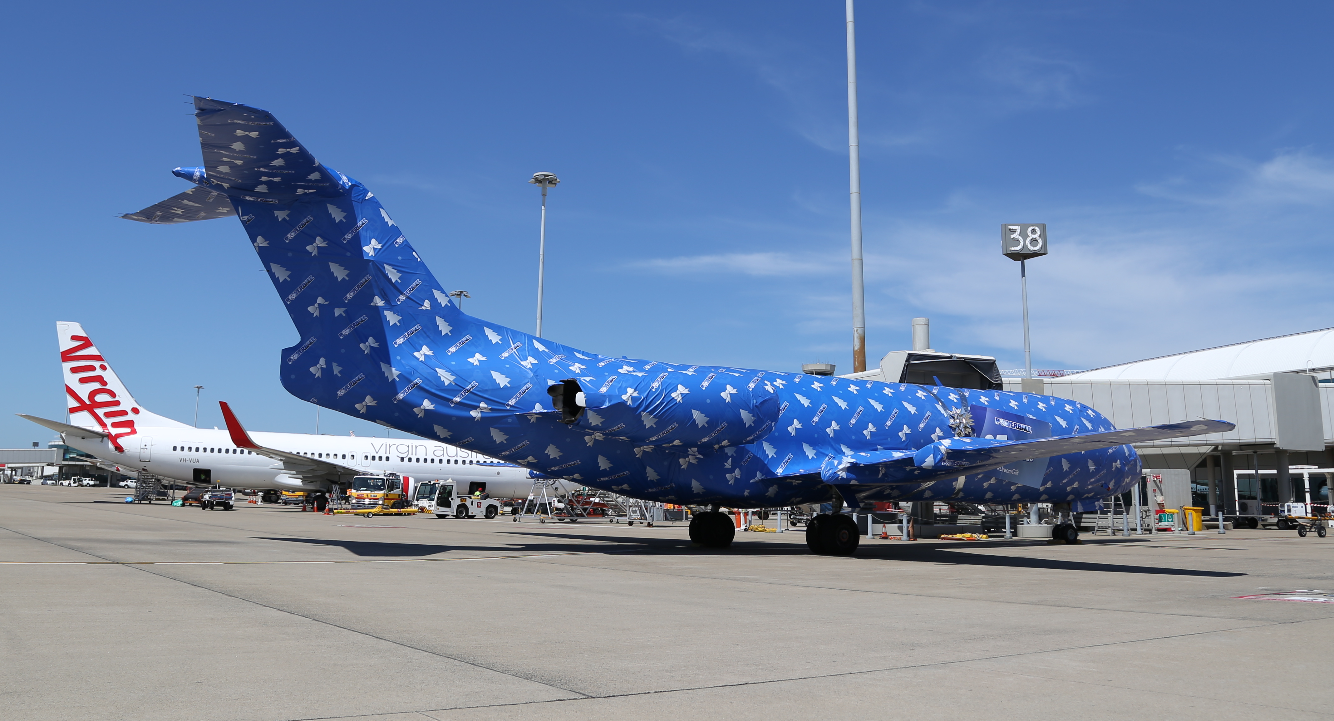 Alliance Airlines Fokker F70 wrapped up in Powerball wrapping paper at Brisbane Airport